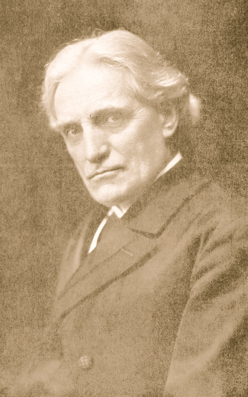 photograph of Henry Clay Morrison, president of Asbury College, Wilmore Kentucky